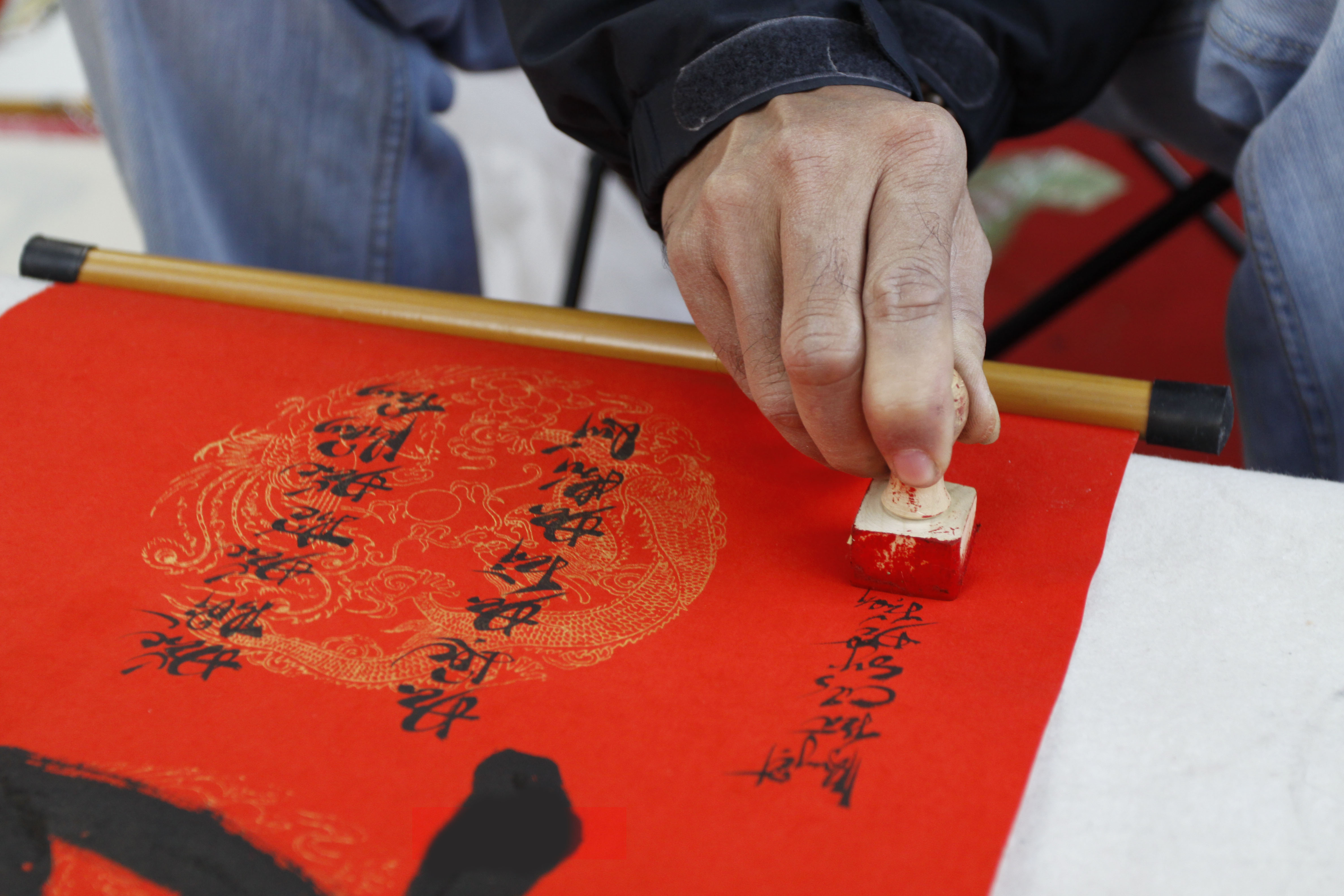 Hán tự calligraphy writing in January at the Temple of Literature, Hanoi.